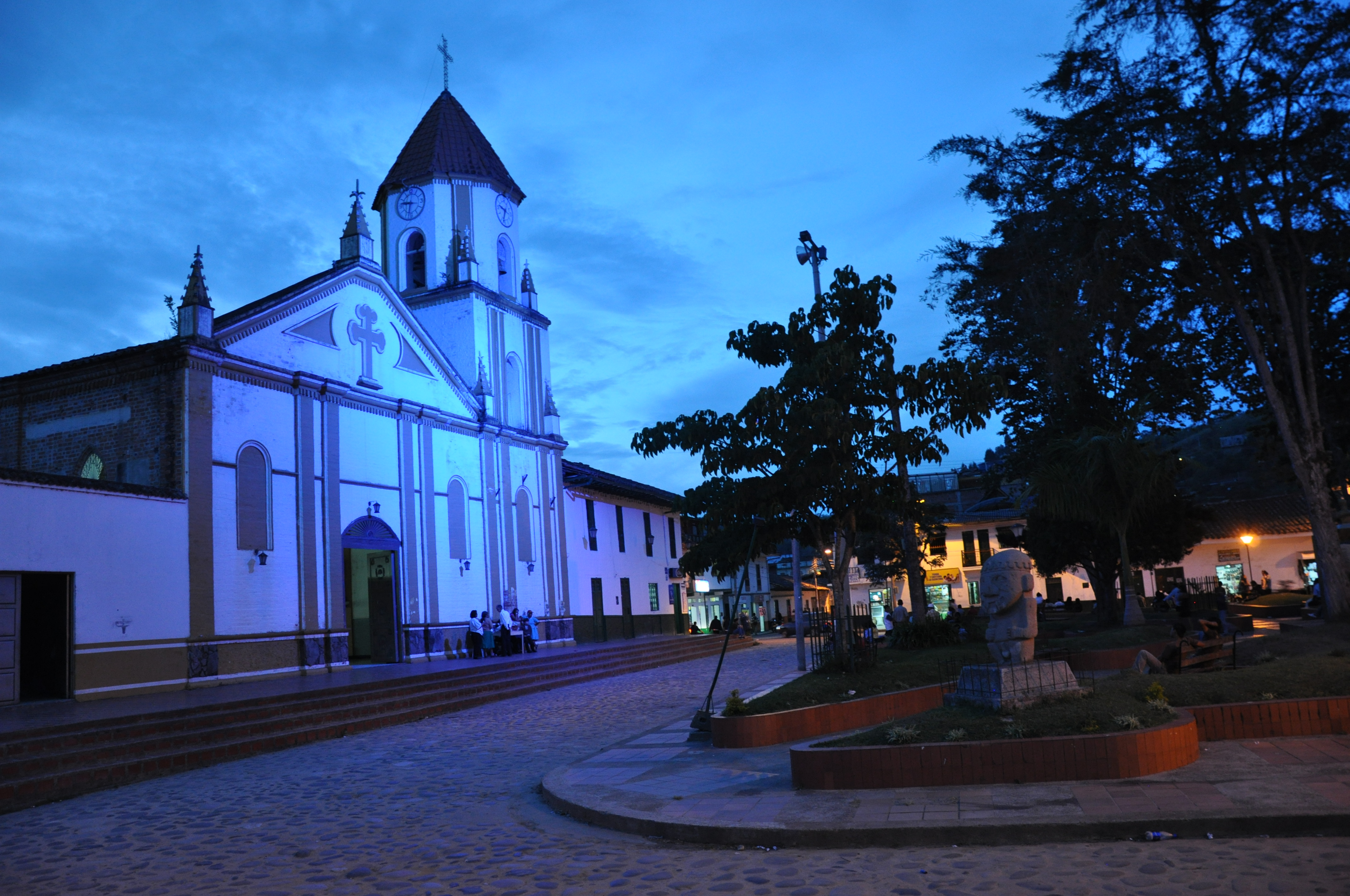 San Agustín is a town and municipality in the southern Colombian Department of Huila. The town is located 227 km away from the capital of the Department, Neiva. Population is around 30,000. The village was originally founded in 1752 by Alejo Astudillo but attacks by indigenous people destroyed it. The present village was founded in 1790 by Lucas de Herazo y Mendigaña. The area is very well known for its pre-Columbian archaeological sites, which generates significant revenue to the economy due to the high volume of tourists, both Colombian and foreigners. These sites form a UNESCO World Heritage Site. The climate is very pleasant all year round with a mean temperature of 18°C.